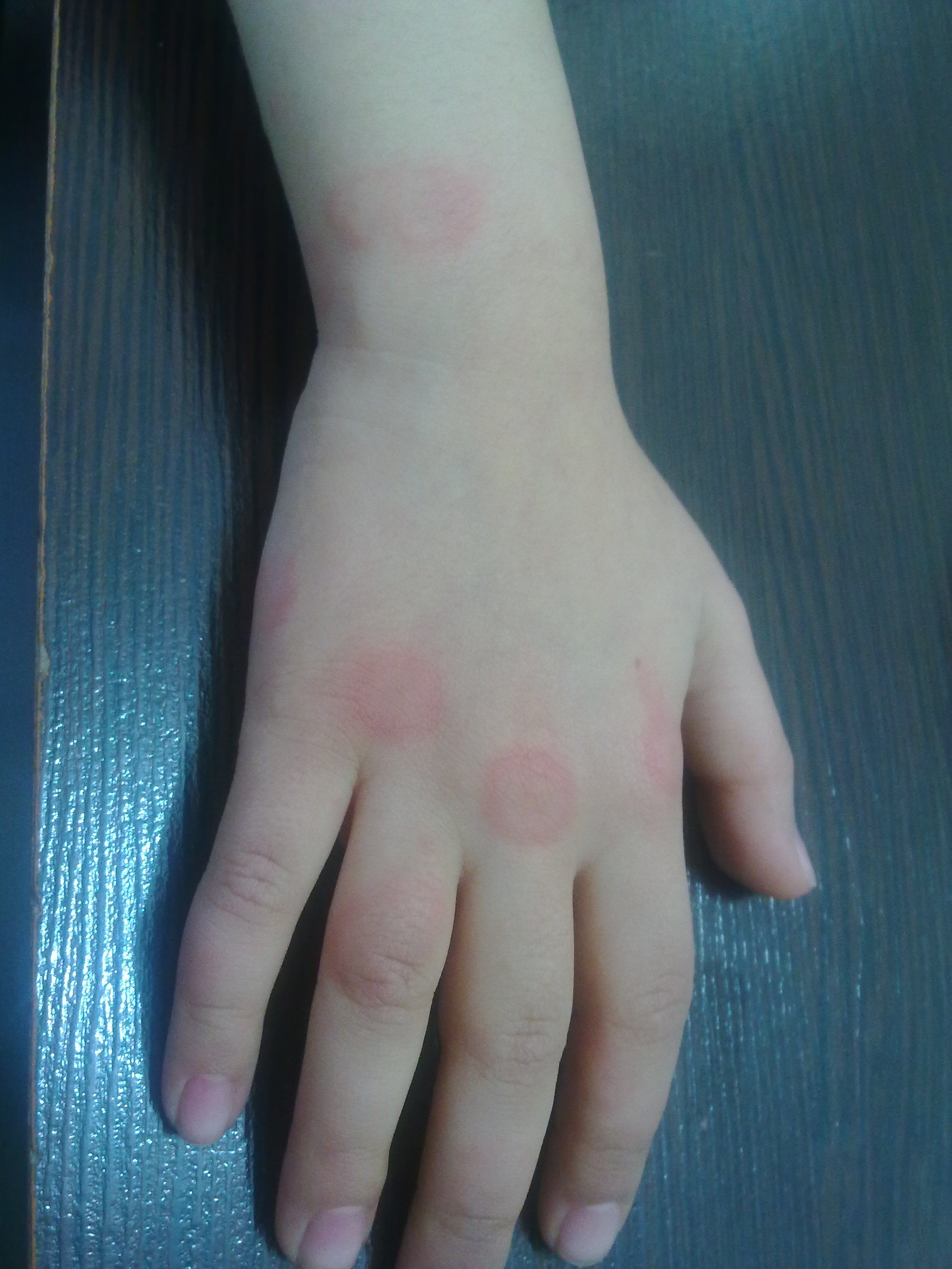 Pruritic Erythema in dorsum of the right hand of an 8 yr's old boy . The diagnosis is perhaps Papular urticaria ( Insect bite )